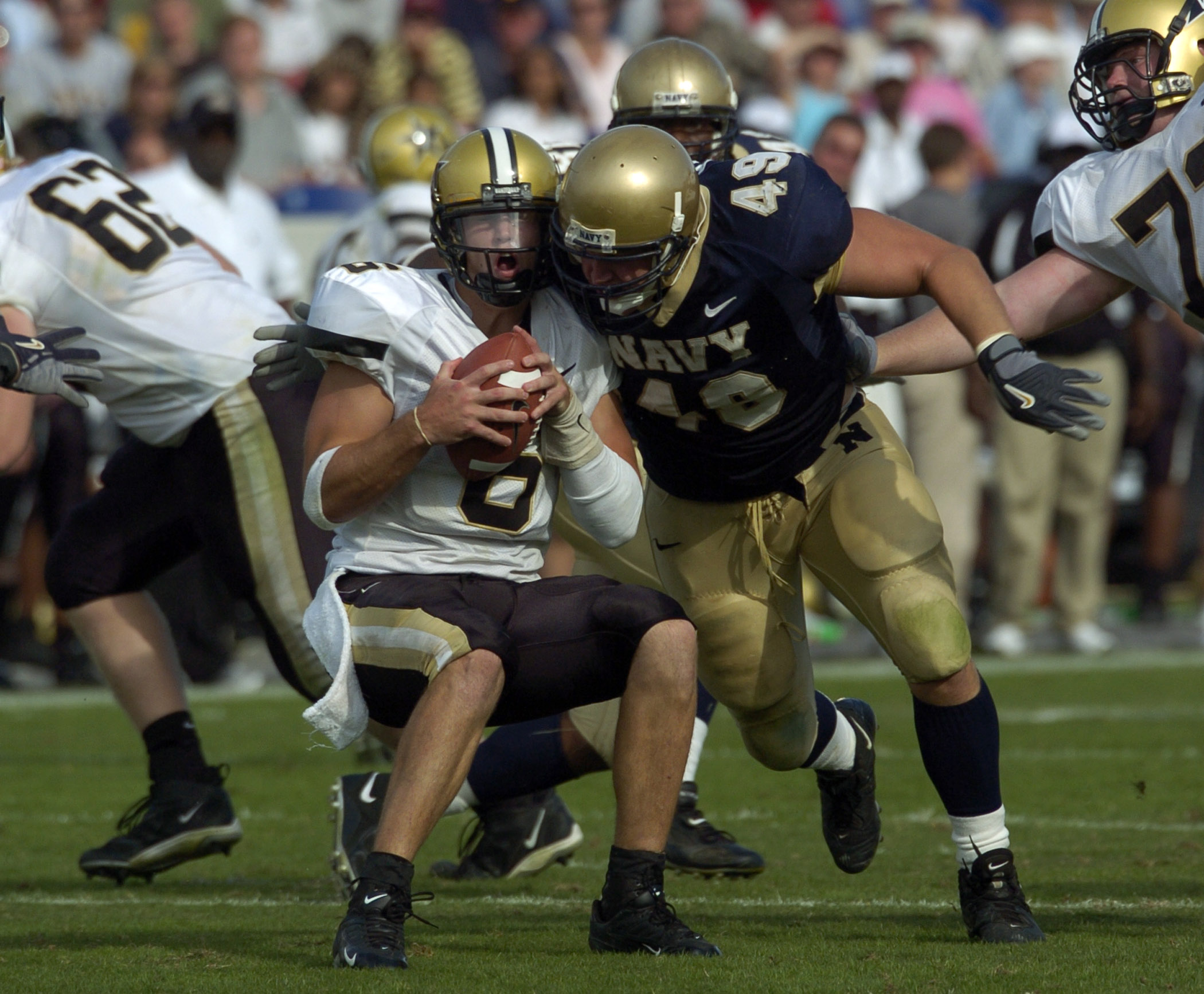 Vanderbilt Quarterback Jay Cutler (#6-white) is absolutely annihilated by U.S. Naval Academy Midshipman 2nd Class Jeremy Chase (#48-blue) in a game Navy would win, 29-26, on September 25, 2004. Also pictured Ryan King (#62-white).